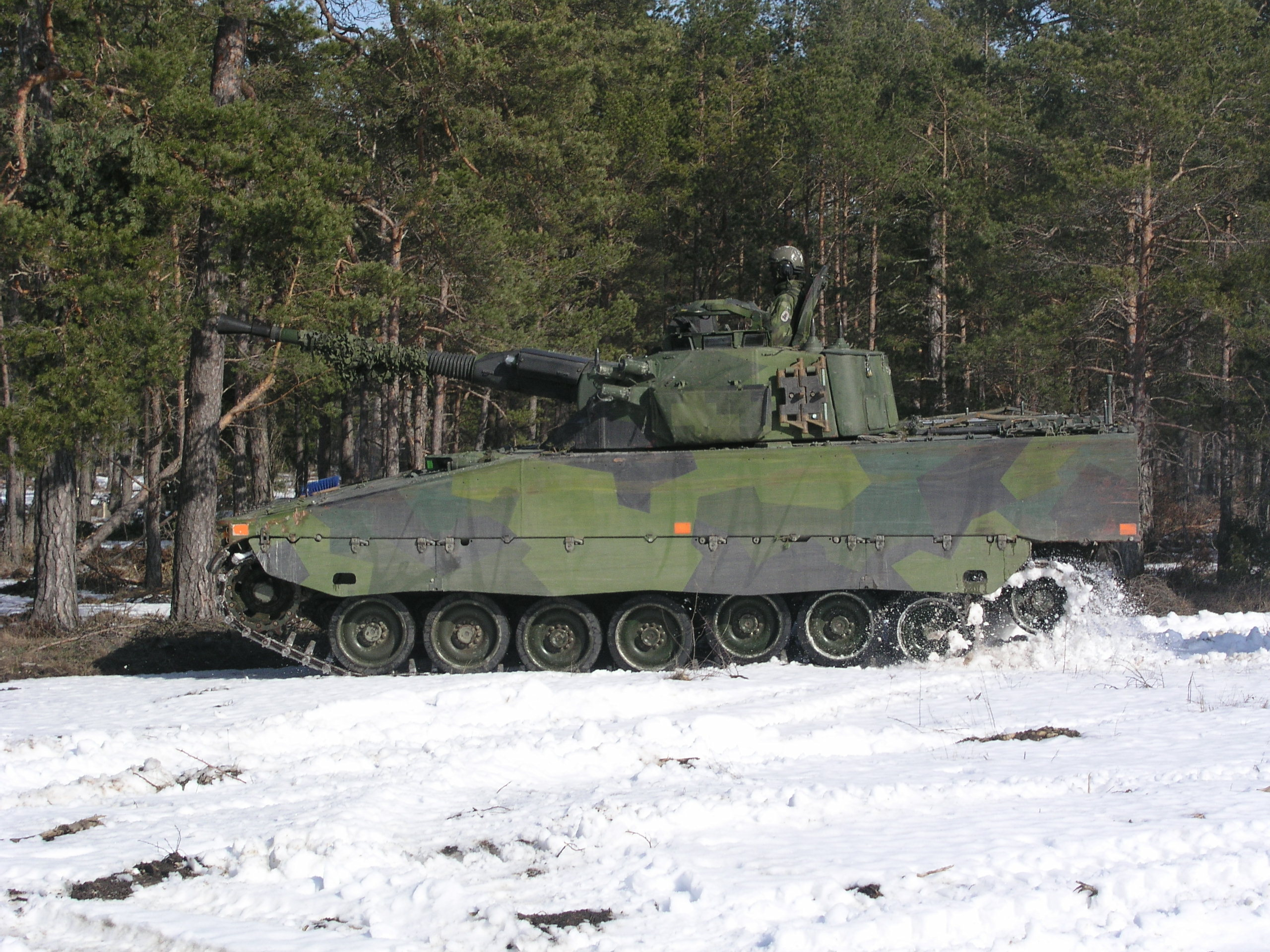 A Swedish Combat Vehicle 9040. Photo taken by BS from P18 in 2005, and therefore free to use.